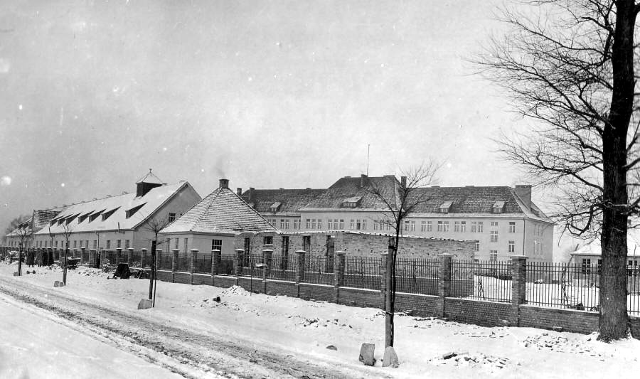 The German aviators' barracks in Schneidemühl (today Piła, Poland).